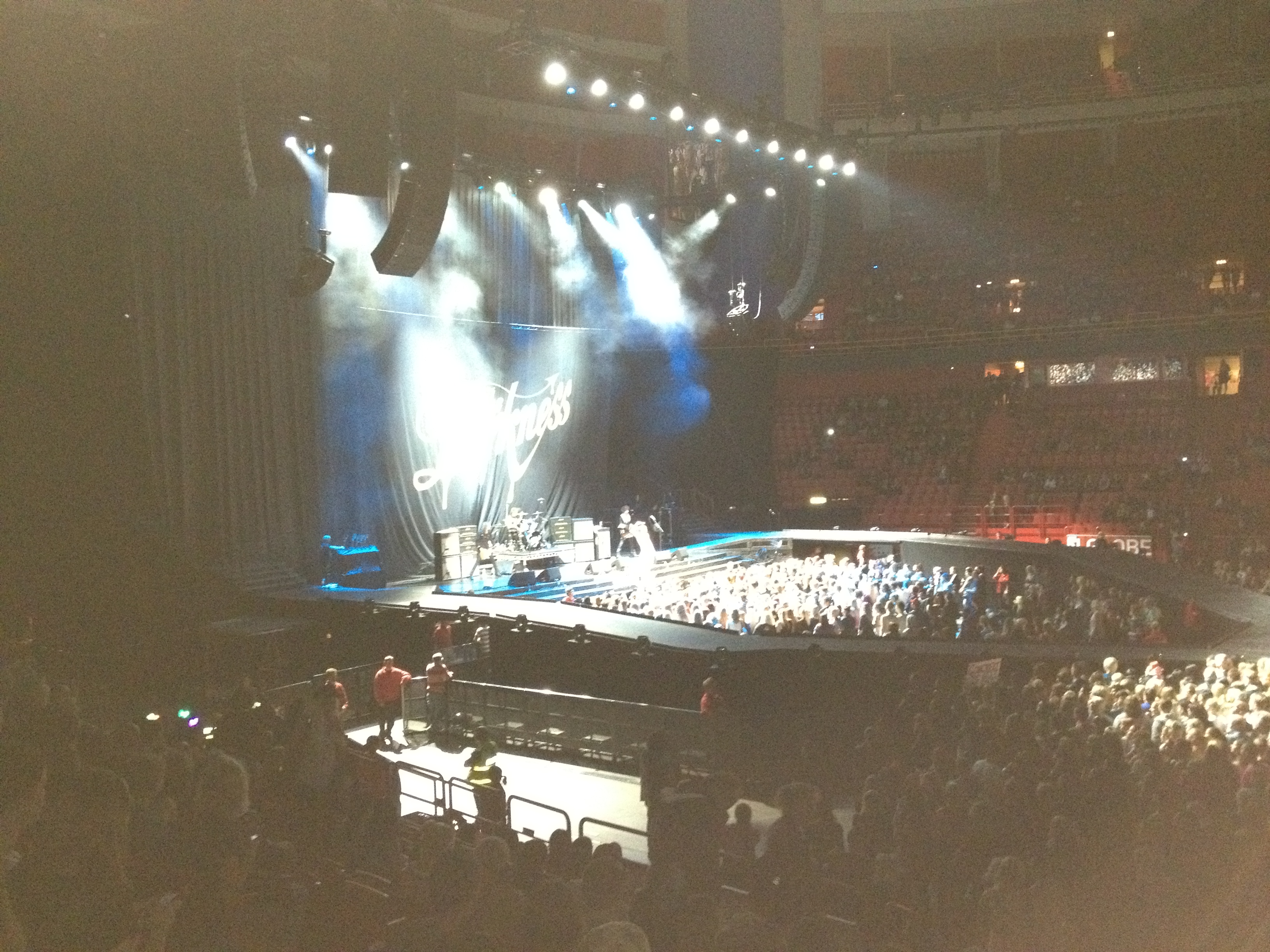 The Darkness live 31st August 2012. Ericsson Globe, Stockholm, Sweden.